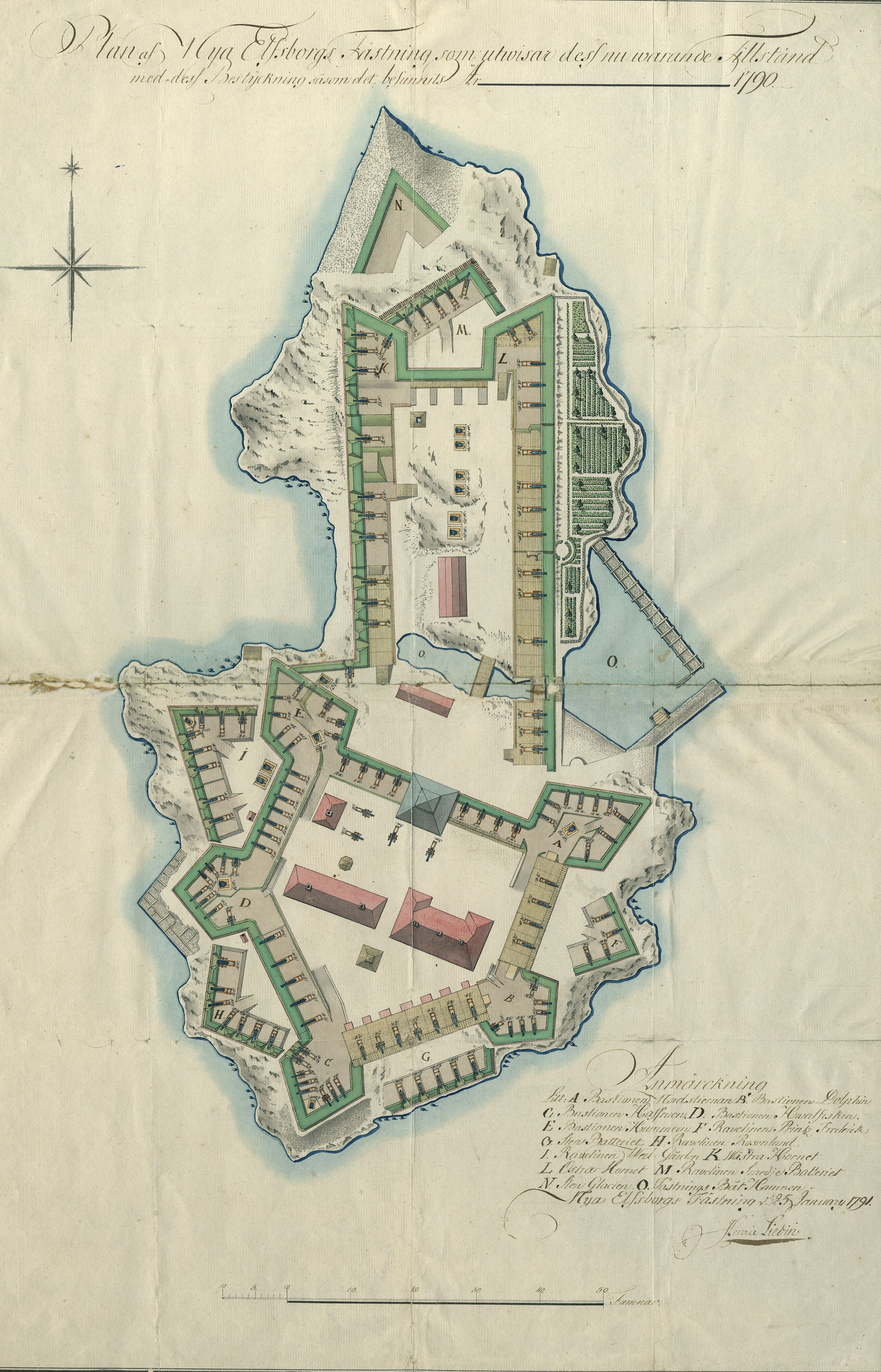 Drawing showing the fortress Nya Älvsborg in Gothenburg, Sweden, with the guns as they were placed in 1790.